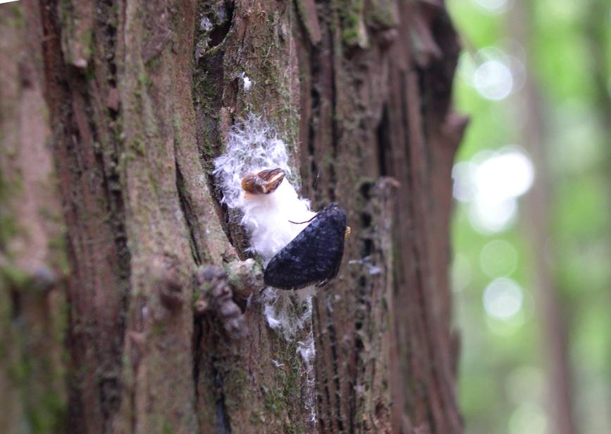 Parasite moth Epipomponia nawai (Lepidoptera:Epipyropidae). A newly emerged female. Yokohama, kanagawa, japan.